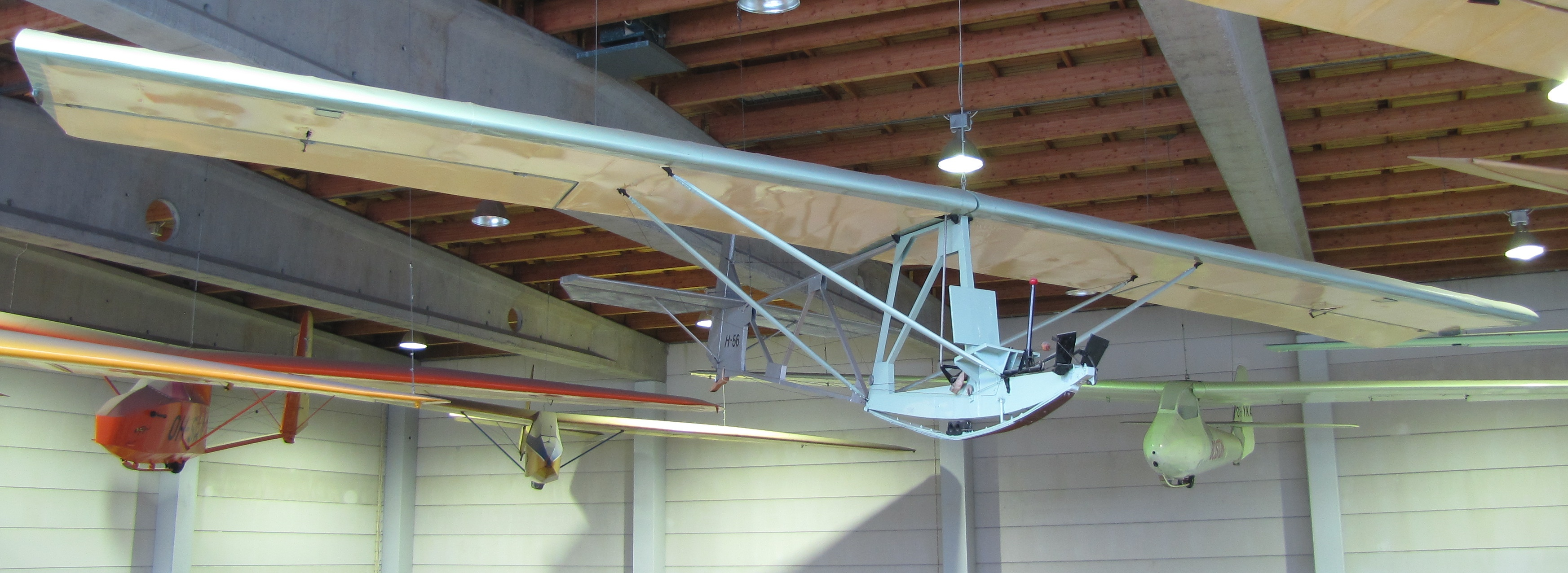 Harakka II primary glider in Finnish Aviation Museum. Serial number 24/52, built 1952. In the background are WWS Salamandra (OH-SAA, red), PIK-5b (yellow) and PIK-3a.